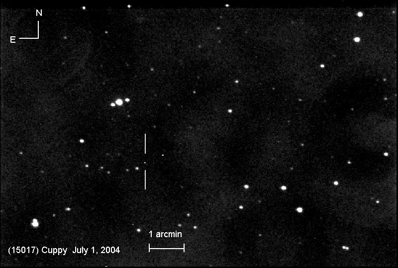 This image of the minor planet (15017) Cuppy was taken from Auburn, Indiana USA on July 1, 2004 using a 40.5 cm RCOS telescope operating at f/8.3. The image is the average of 8 sub-images.